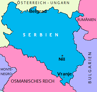 Map of Serbia from the independence in 1878 until the first Balkan war 1912